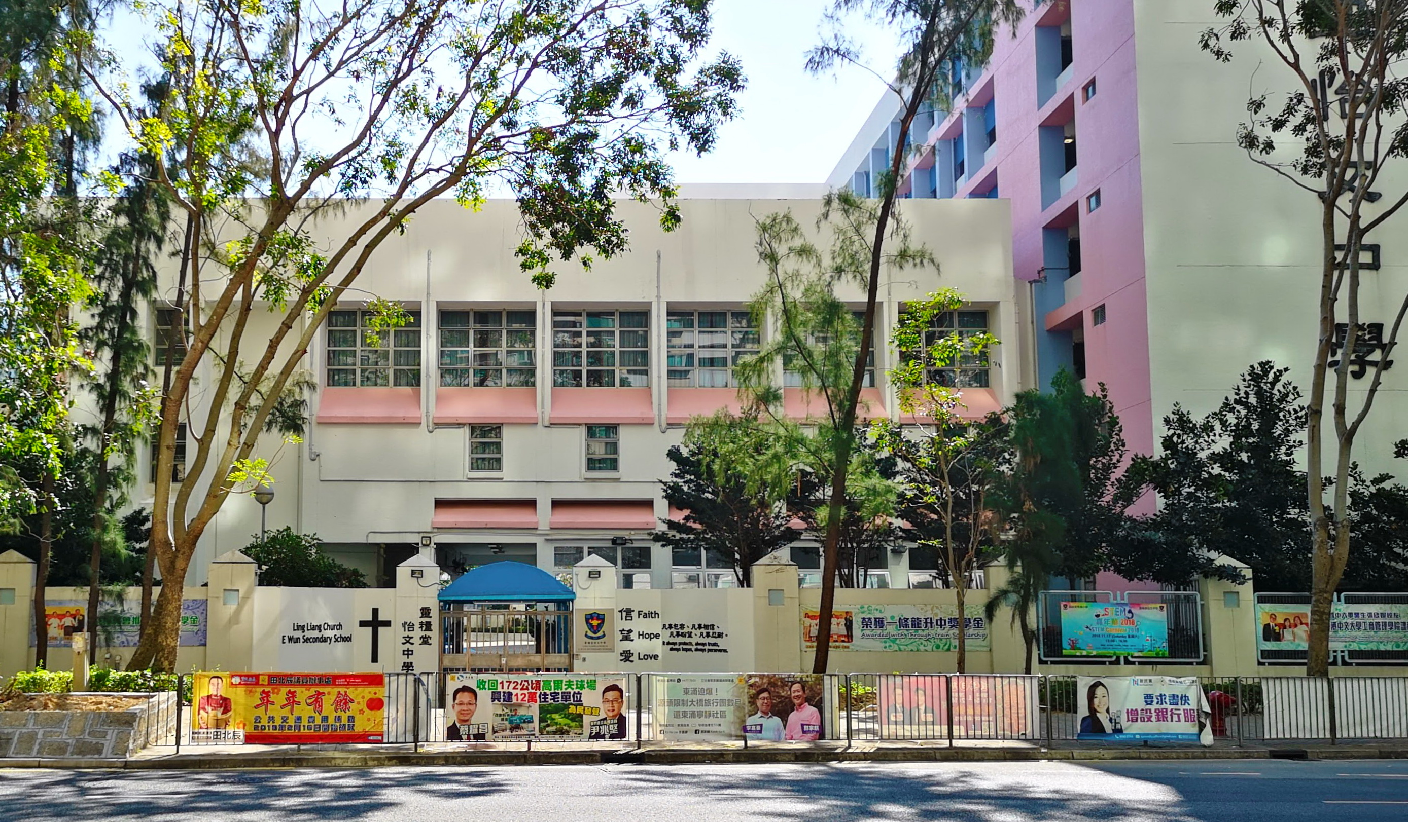 Ling Liang Church E Wun Secondary School, Tung Chung, Hong Kong.